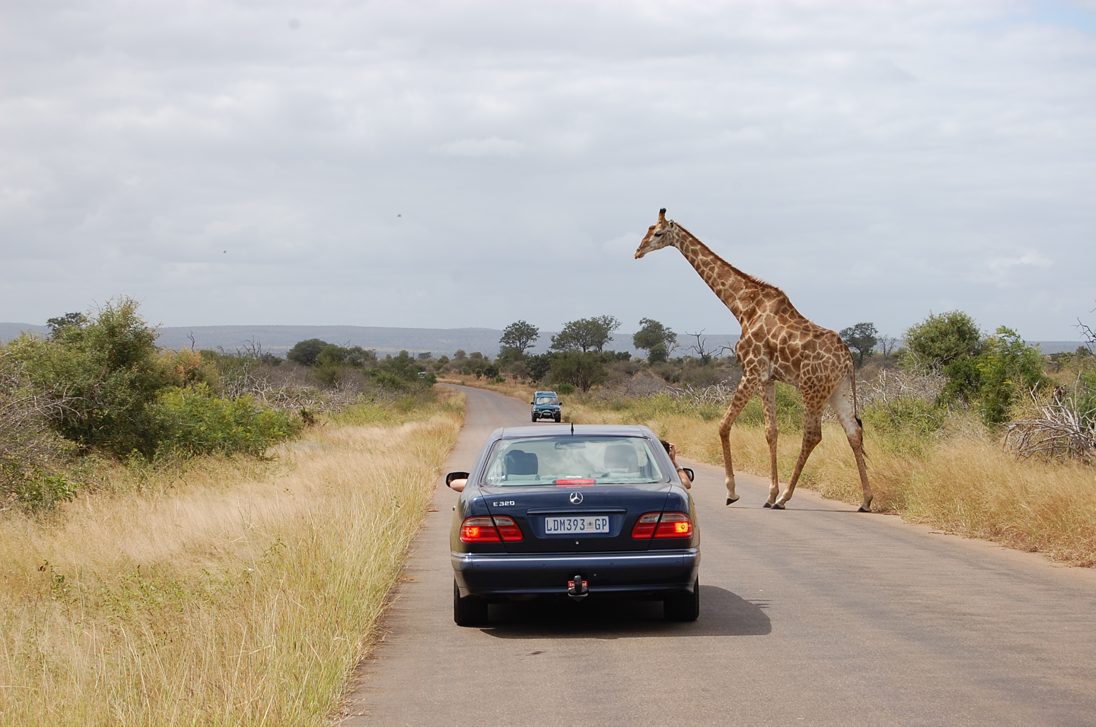 This Photo was taken in the Kruger National Park in South Africa